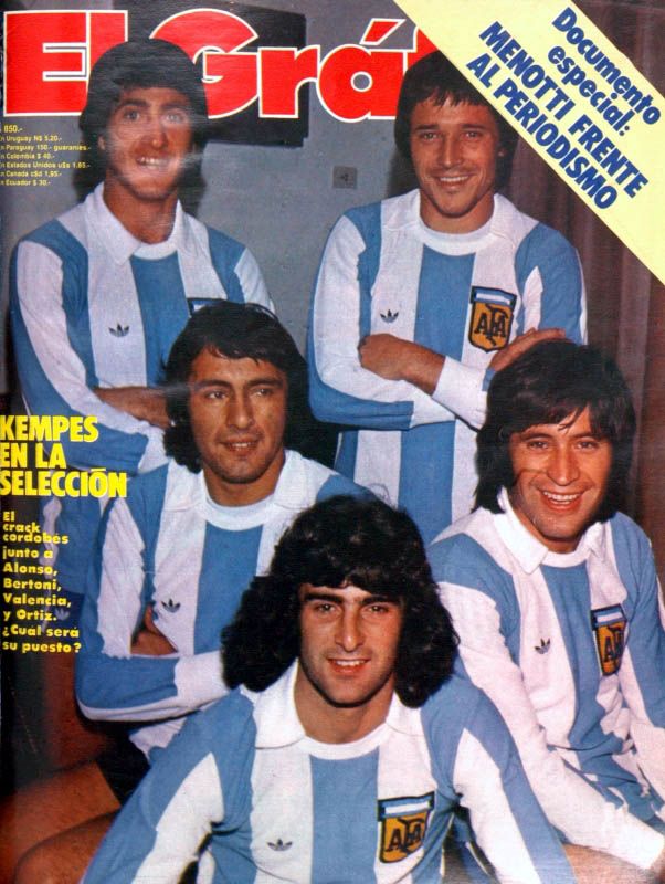 Players of Argentina national team: Norberto Alonso, Daniel Bertoni, Daniel Valencia, Oscar Ortiz, Mario Kempes.